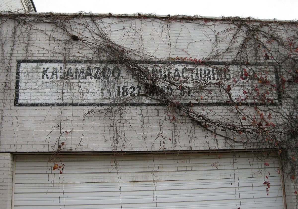 The last visible sign of the Kalamazoo Manufacturing Company on a wall of the manufacturing building on Reed St, Kalamazoo, Michigan, USA.